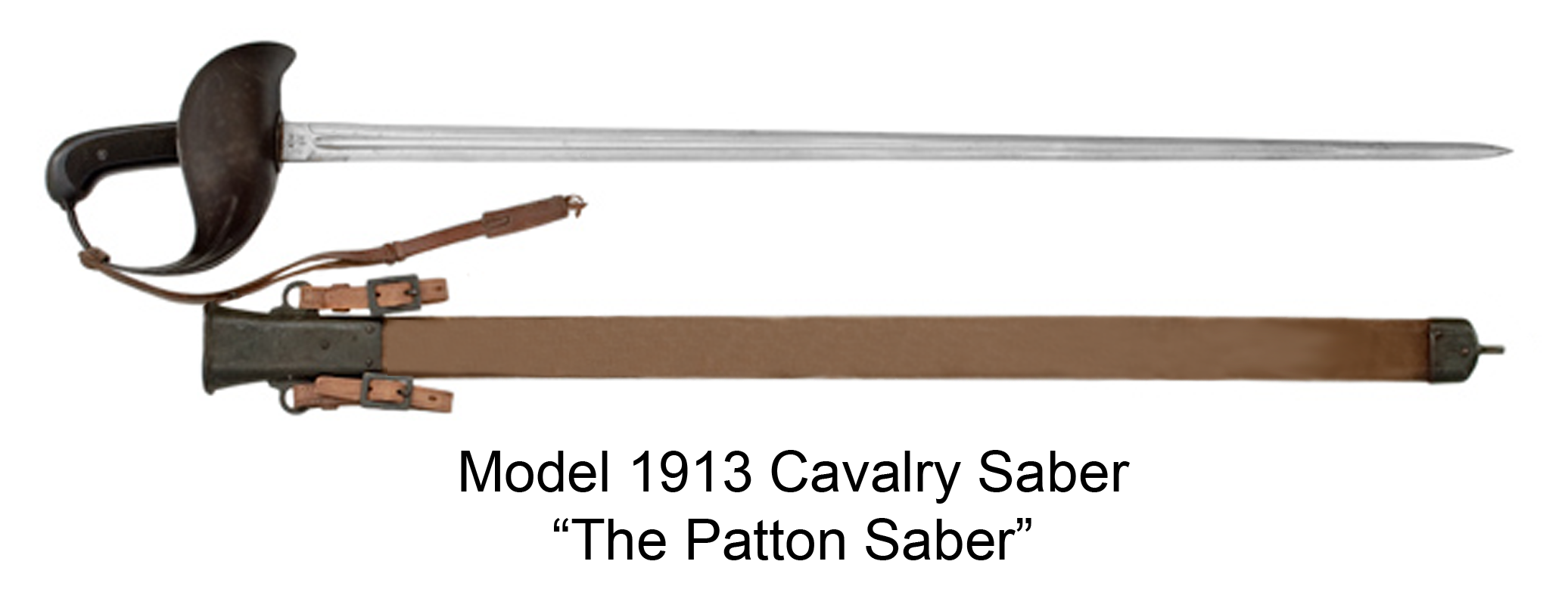 Image if the Model 1913 Cavalry Sword, commonly called the Patton Sword after its designer, Second Lieutenant George S, Patton, Jr.